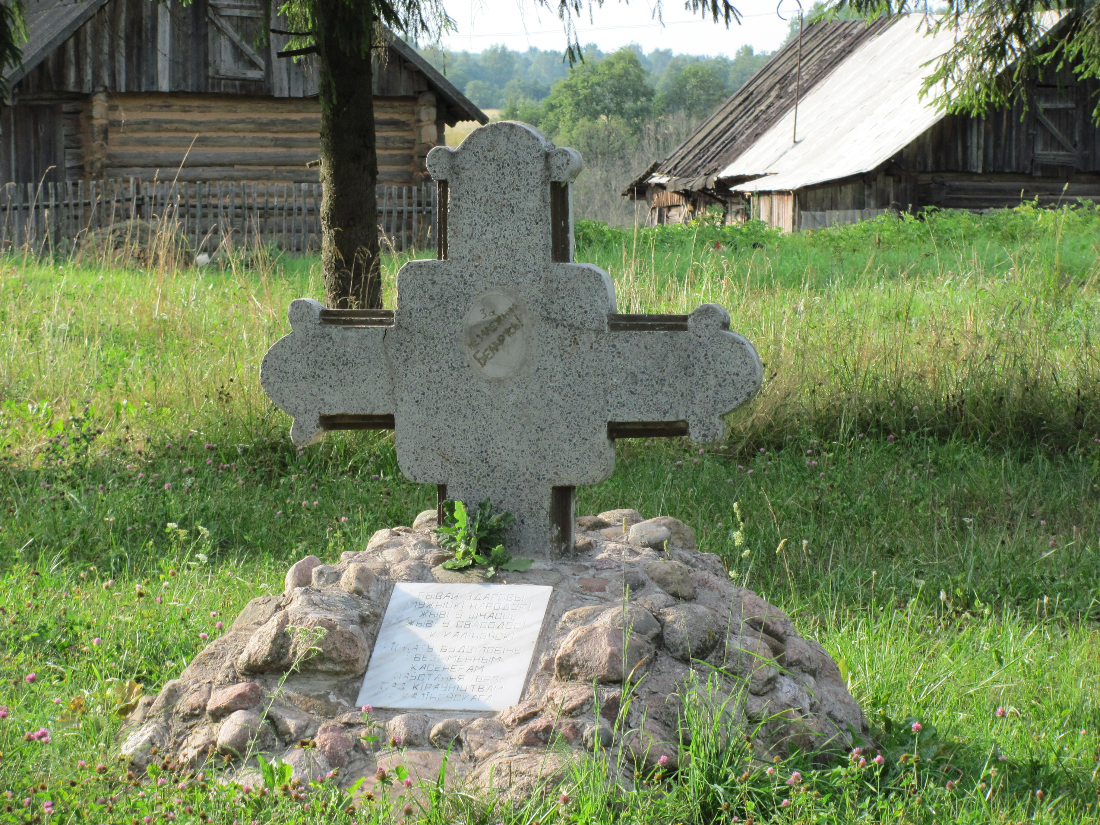 Pohostyszcze village, Bielorussia. Memorial cross to the participants of January uprising (1863-1864) standing on the place of St. Nicolas' church.